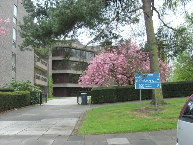 Main Library on the Science Site, Durham